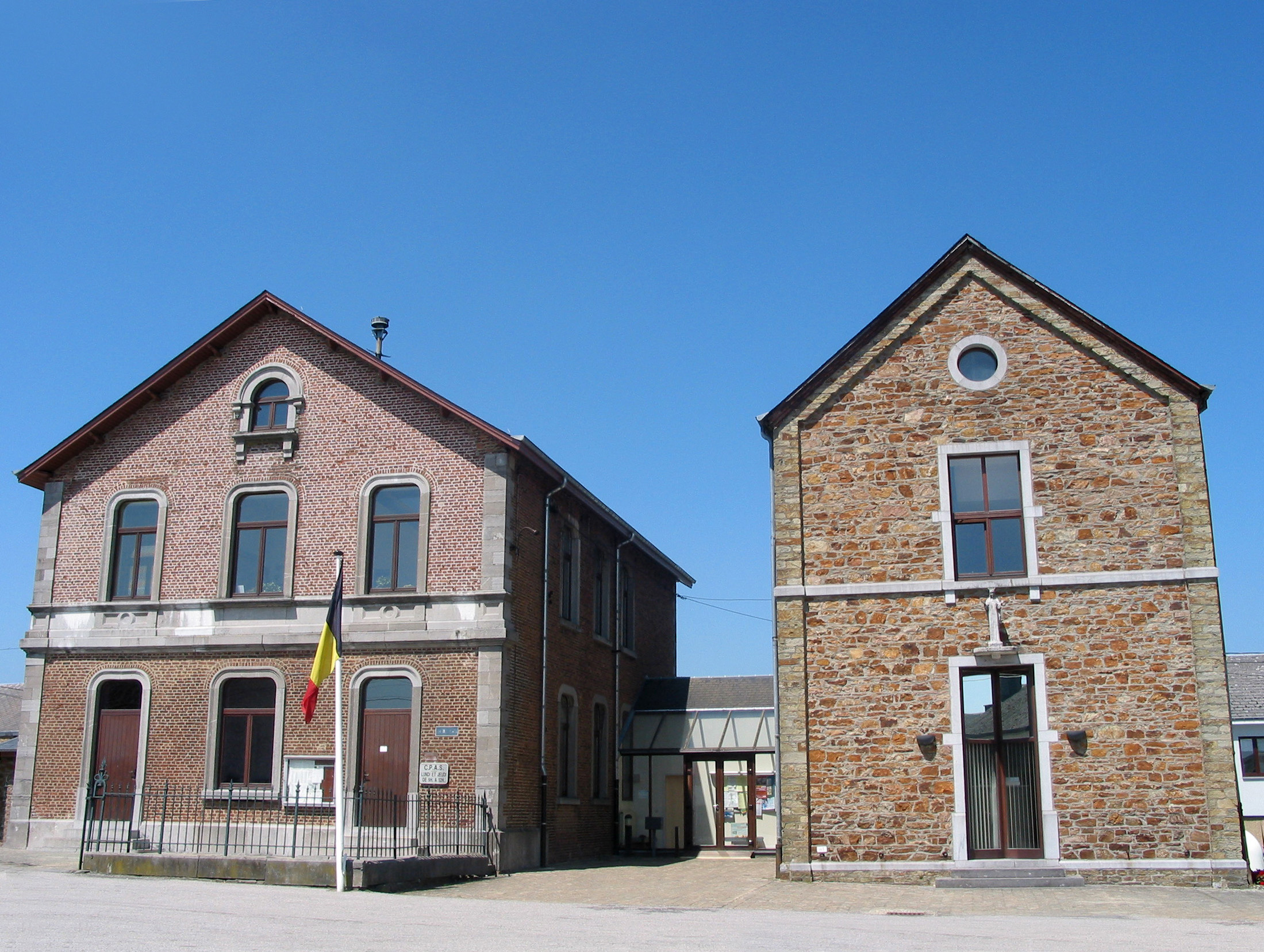 Haut-Fays (Belgium), the town hall.